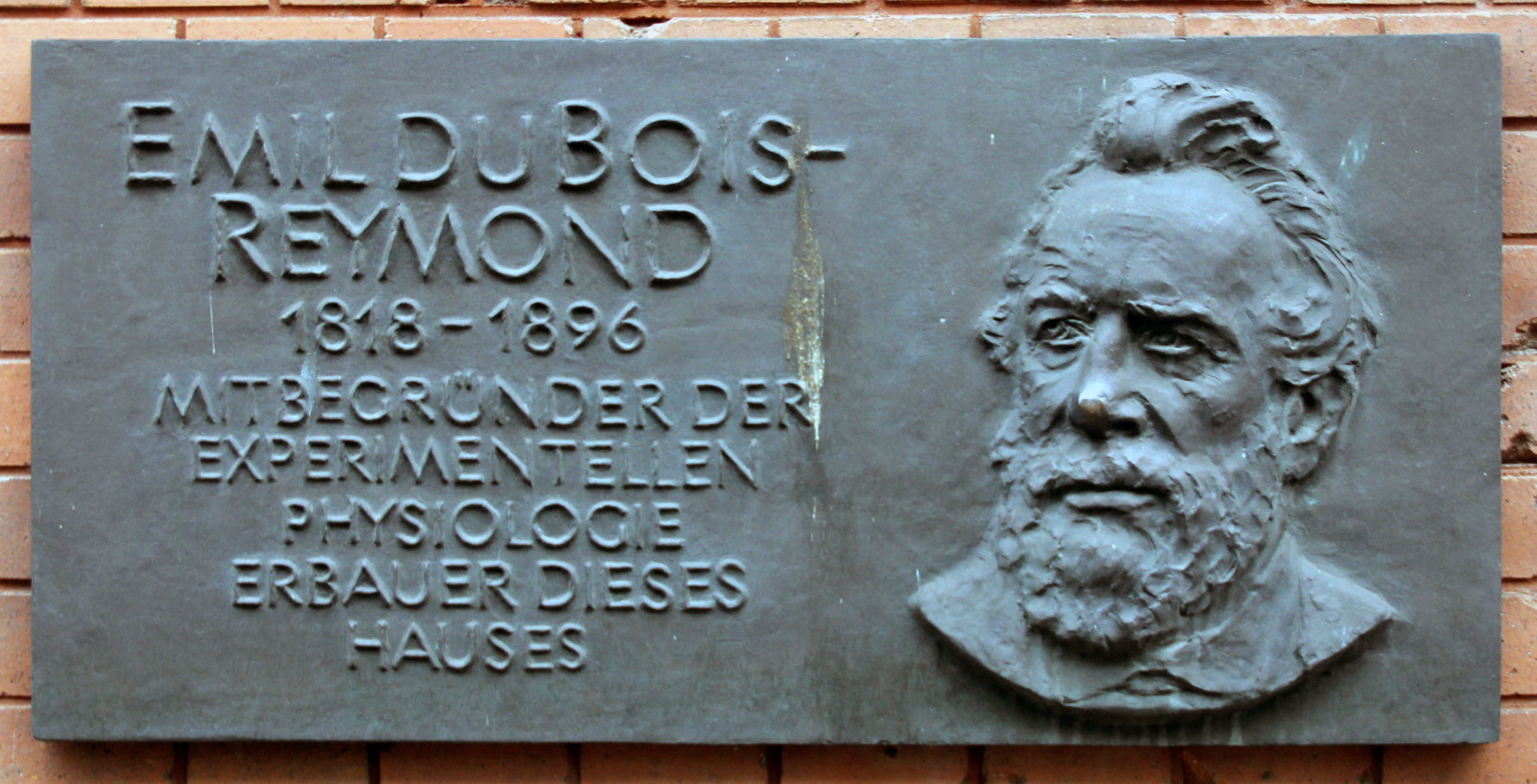 Memorial plaque, Emil Heinrich Du Bois-Reymond, Dorotheenstraße 96, Berlin-Mitte, Deutschland